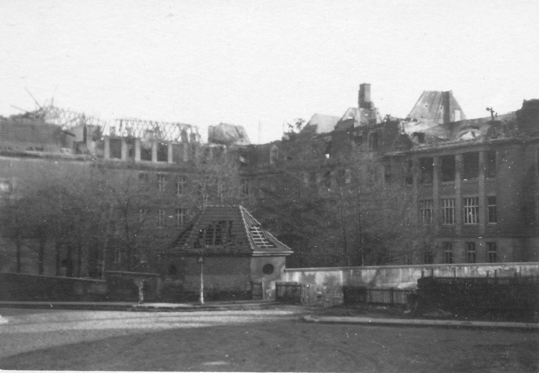 Ysenburgstraße 41 - Oberrealschule II (since 1956 Goetheschule/Goethe-Gymnasium) showing the damages caused by the air raid. Wesertor district.